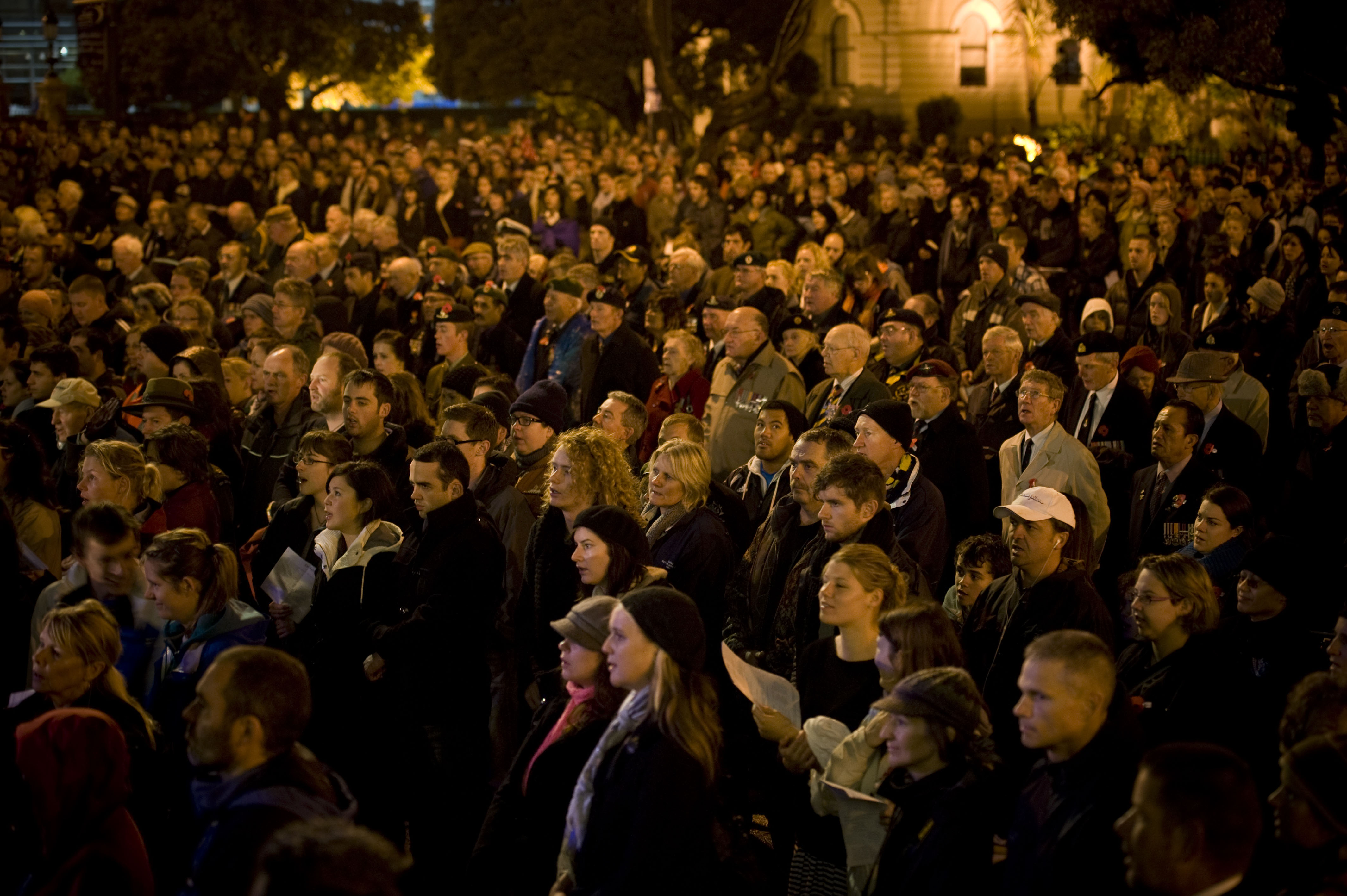 ANZAC Day Dawn Service at Wellington Cenotaph 20110425_WN_S1015650_0007.jpg Crown Copyright 2011, NZ Defence Force – Some Rights Reserved.